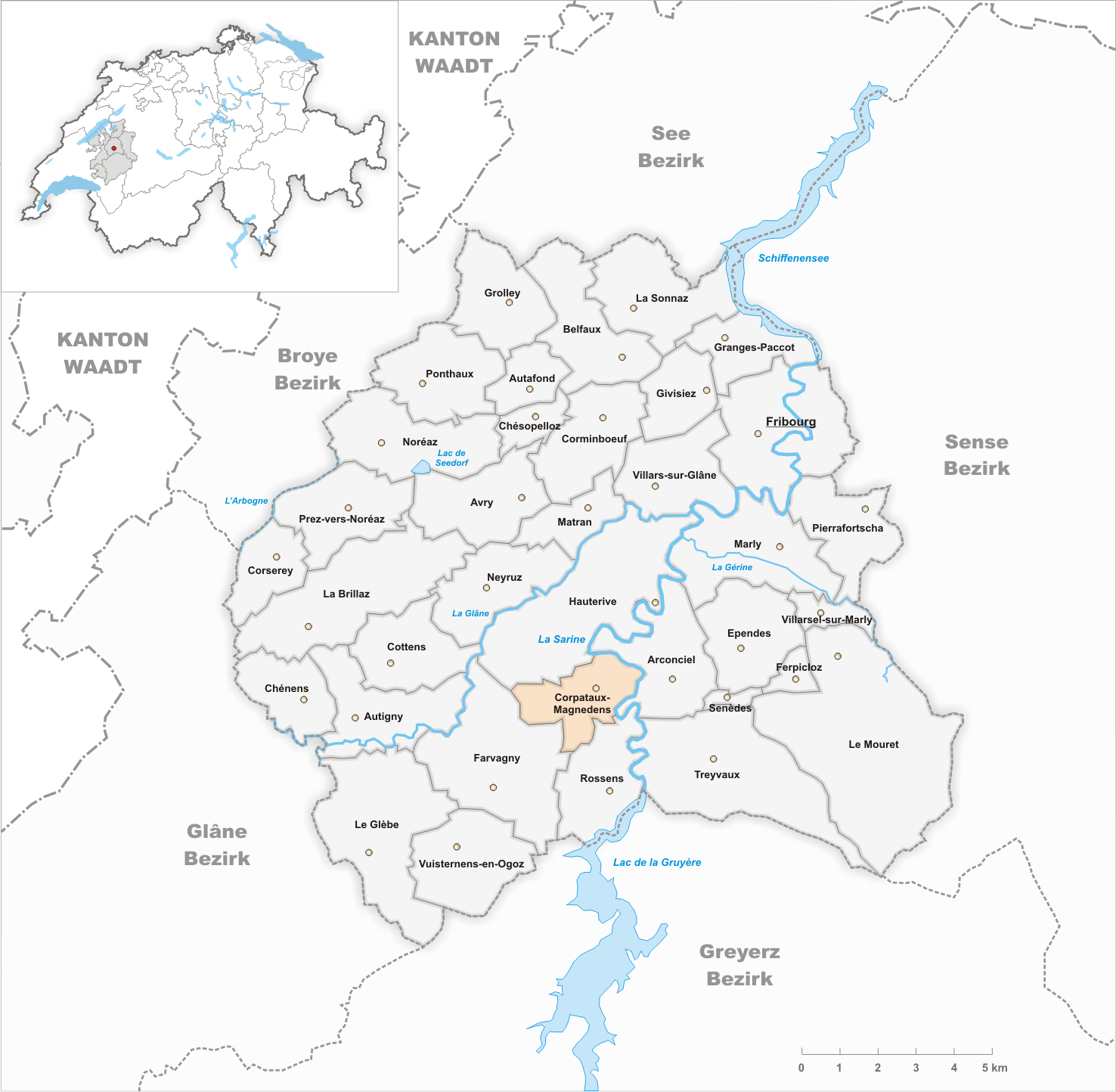 Municipality Corpataux-Magnedens